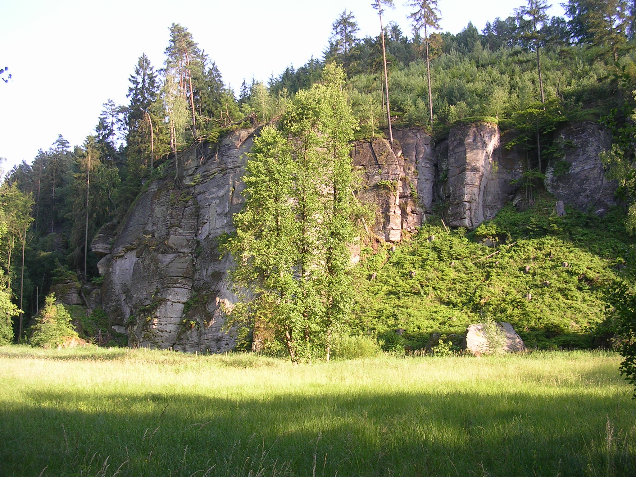 Vyskeř (Liberec Region) and Libošovice (Hradec Králové Region), the Czech Republic. Rocks.